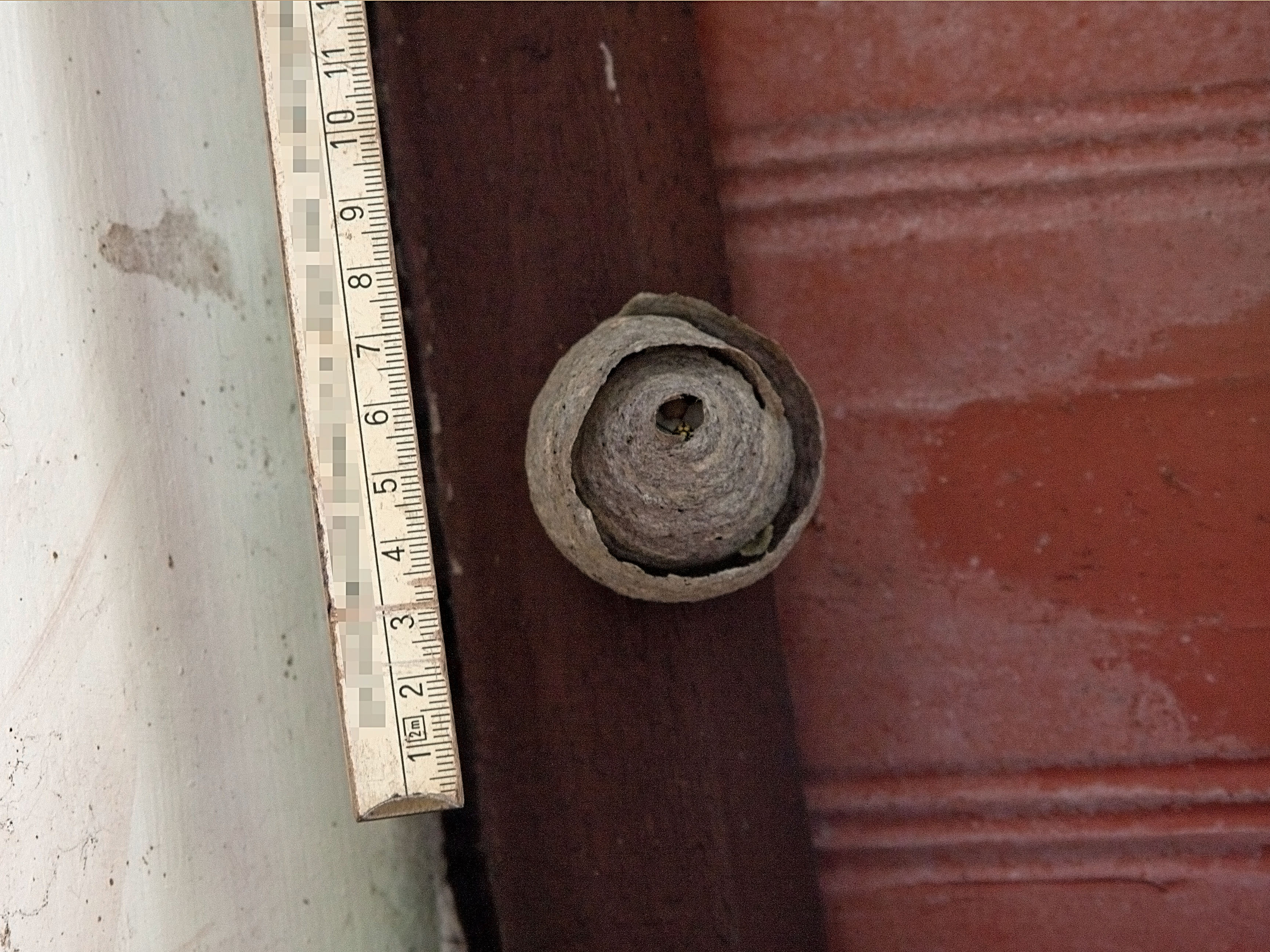 Vespiary of maybe Dolichovespula saxonica?